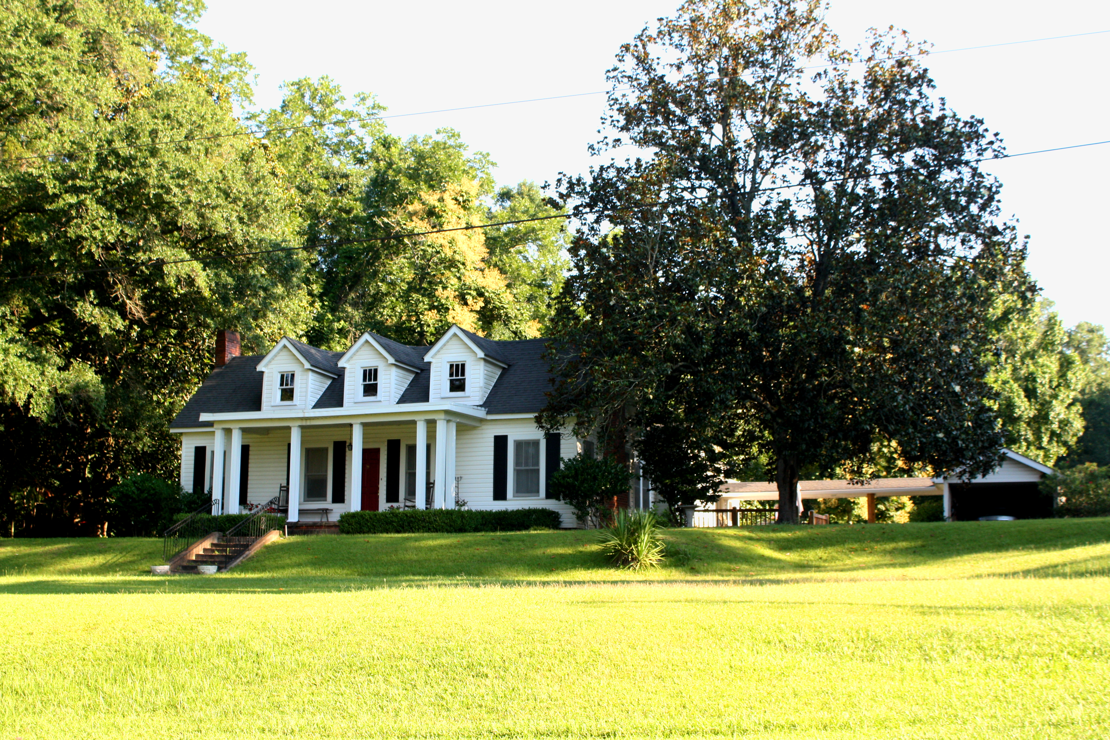 The William Lee McNider House in Sweet Water, Alabama.